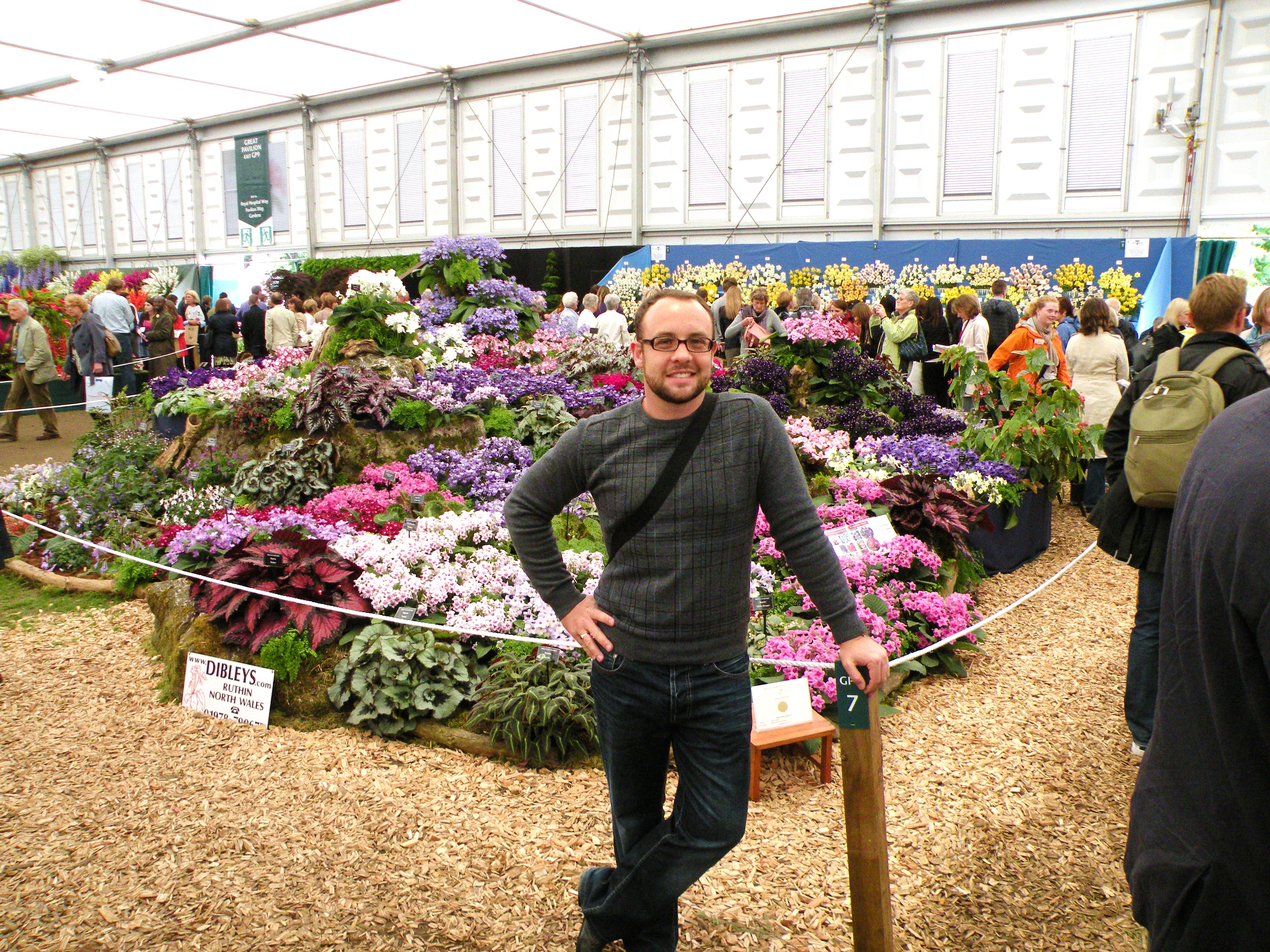 A man in front of the Dibleys Streptocarpus display at the Chelsea Flower Show in May 2011